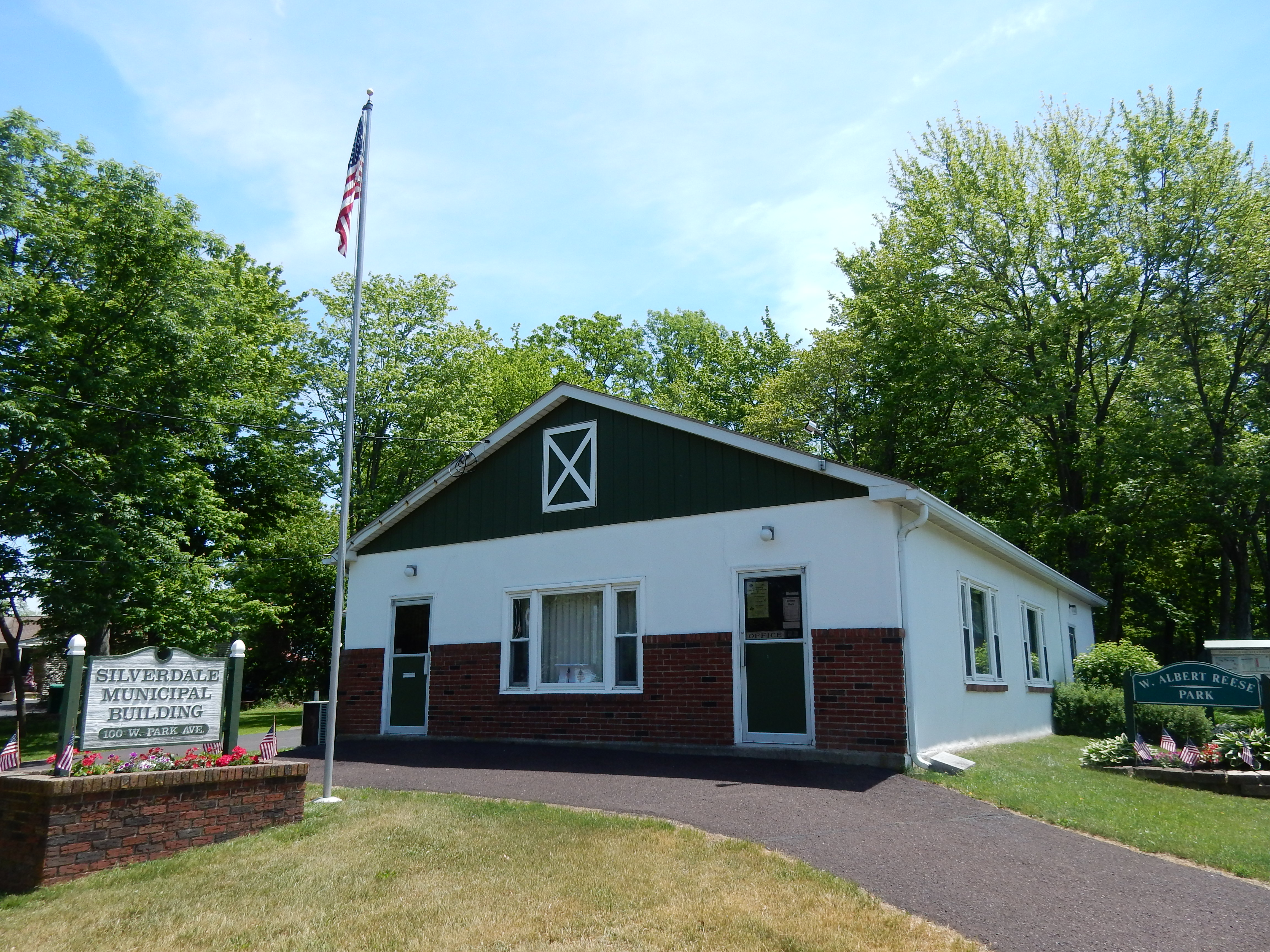 Silverdale Municipal Building, 100 W. Park Ave. Silverdale Borough, Bucks County, PA.